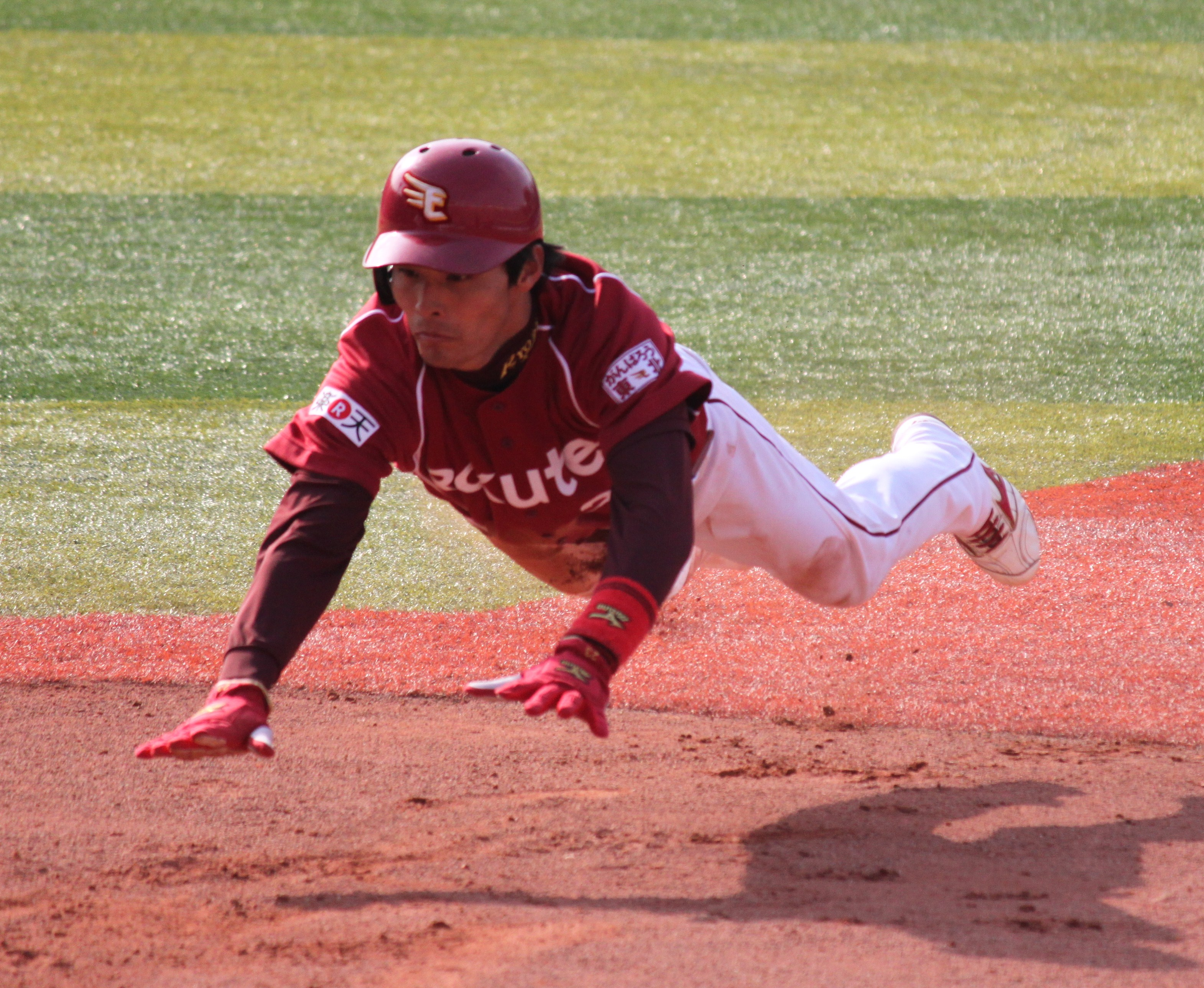 Ryo Hijirisawa, outfielder of the Tohoku Rakuten Golden Eagles, at Yokohama Stadium